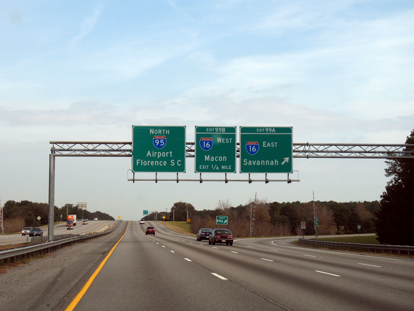 Interstate Highway Signs